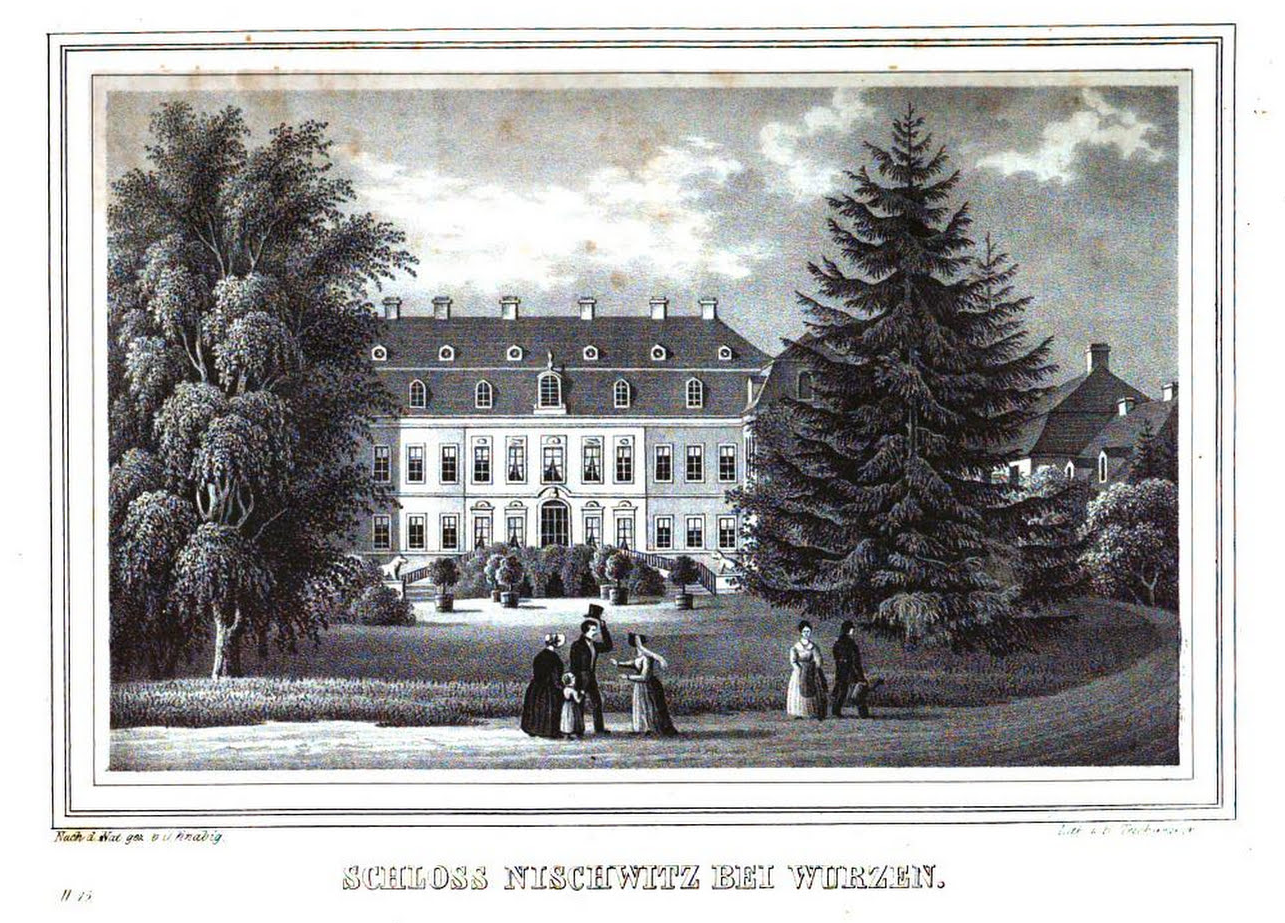 Schloss Nischwitz, Nischwitz, Gemeinde Thallwitz, Landkreis Leipzig, Saxony, Germany